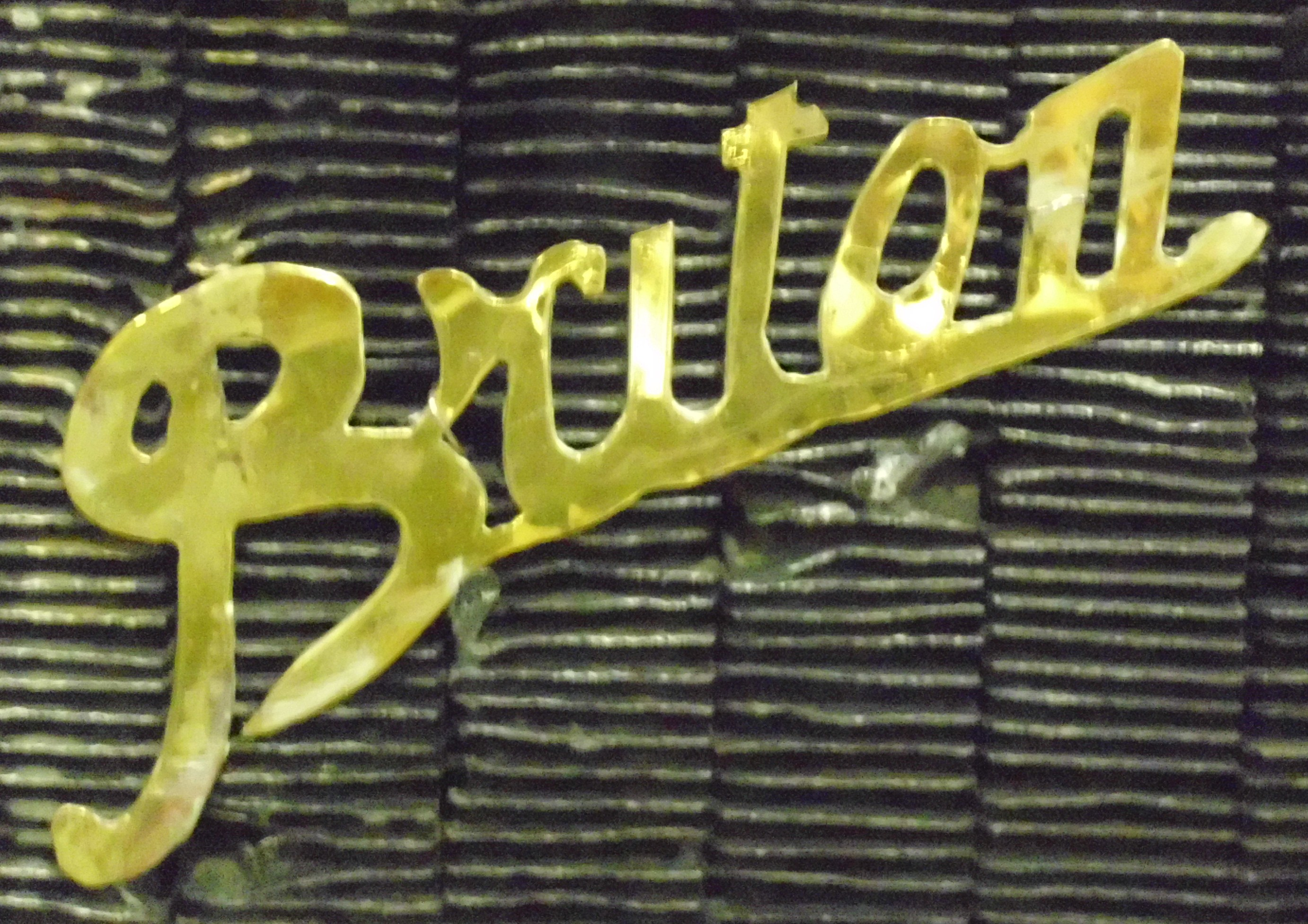 Emblem Briton